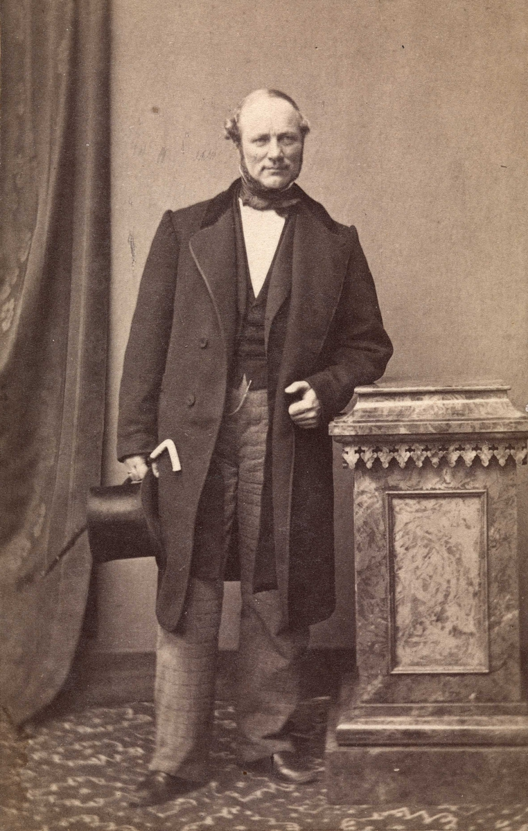 Norwegian book publisher Wilhelm Christian Keilhau Fabritius (1816–87)